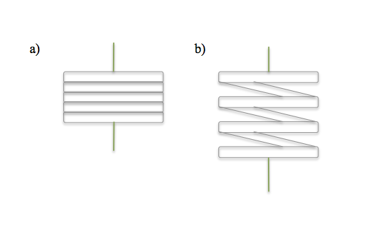 Spring (Device) that is extended and not extended